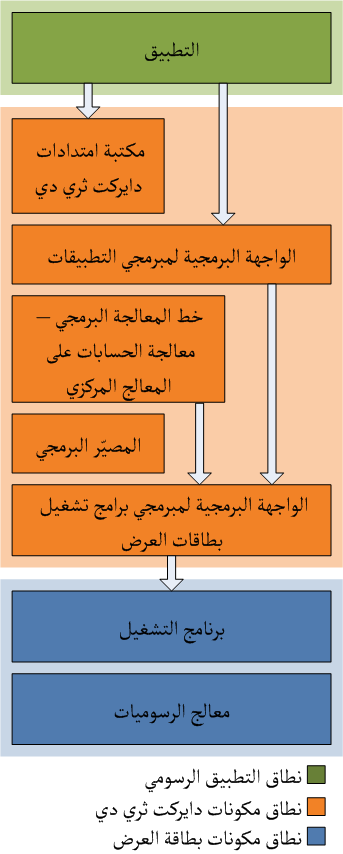 Architectural diagram of Direct3D and its interaction with other components